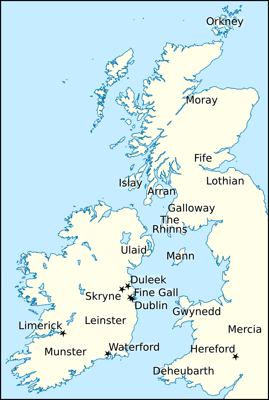 Map illustrating some places named in the English Wikipedia article Echmarcach mac Ragnaill (died 1064/1065).